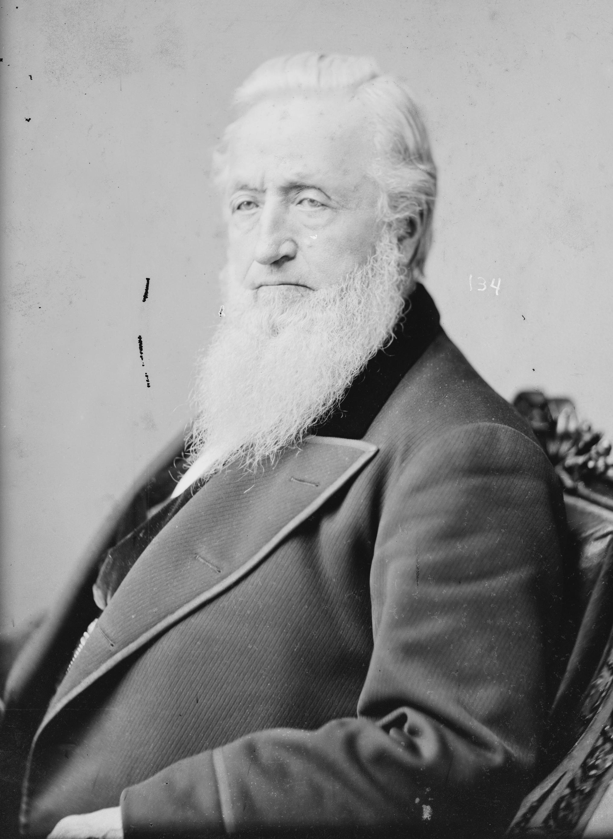 Hiram Lawton Richmond. Library of Congress description: "Richmond, Hon. H.L. of Pa.".